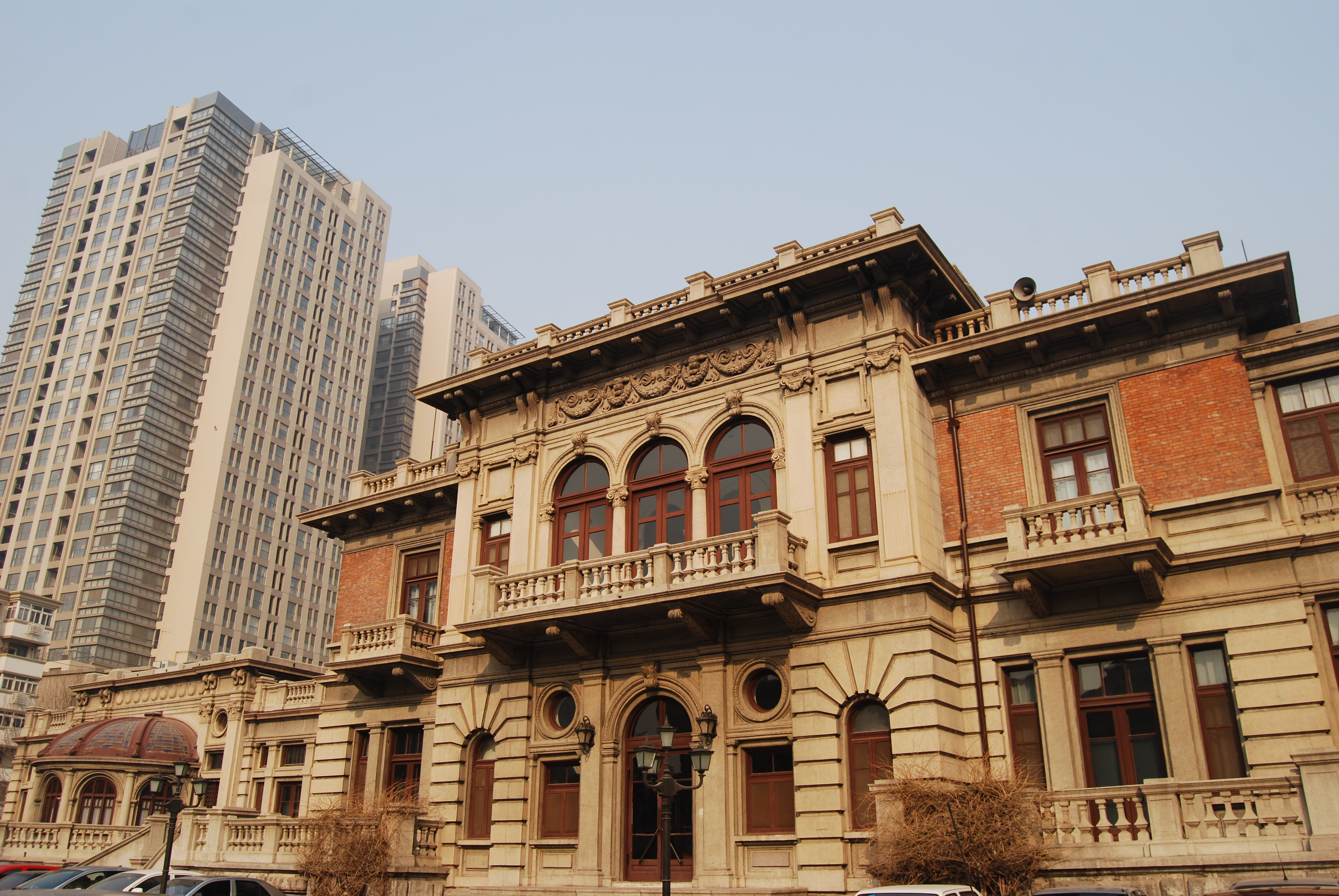 Former residence of Tang Yulin (1871–1937) in Minzhu Dao No. 40, Hebei District, Tianjin